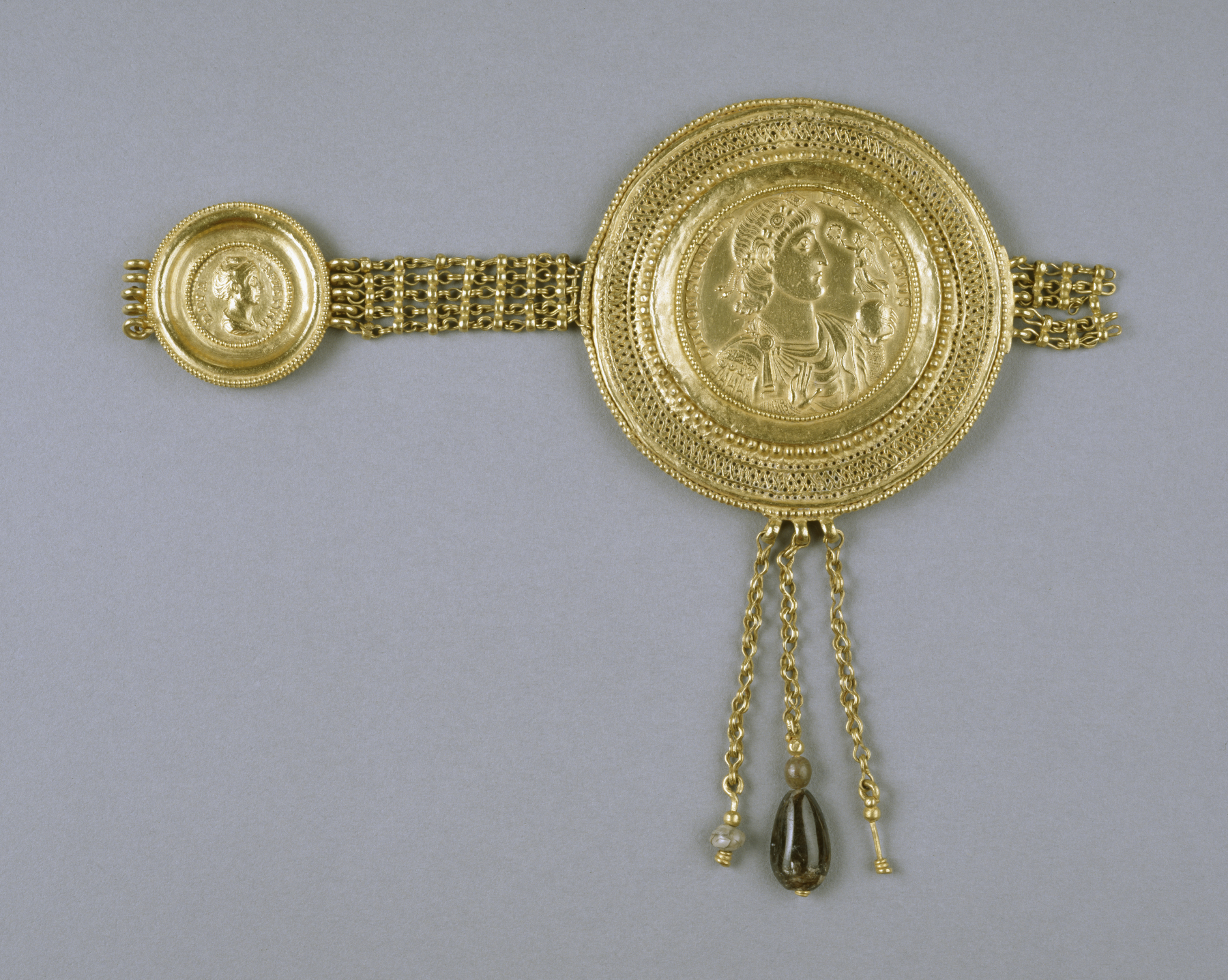 Imperial medallions, such as this one of Constantius II (reigned 350-361), were often mounted by their recipients to boast of their highly favored status in society. This stunning example, minted in Nicomedia (Asia Minor), represents on the reverse the triumphant emperor in his chariot. Smaller coins were also mounted as jewelry, like the smaller aureus honoring Galeria Faustina (died 140/141), wife of Antoninus Pius. Other mounted coins, separated by lengths of chain, would have completed this section of either a belt or a necklace.